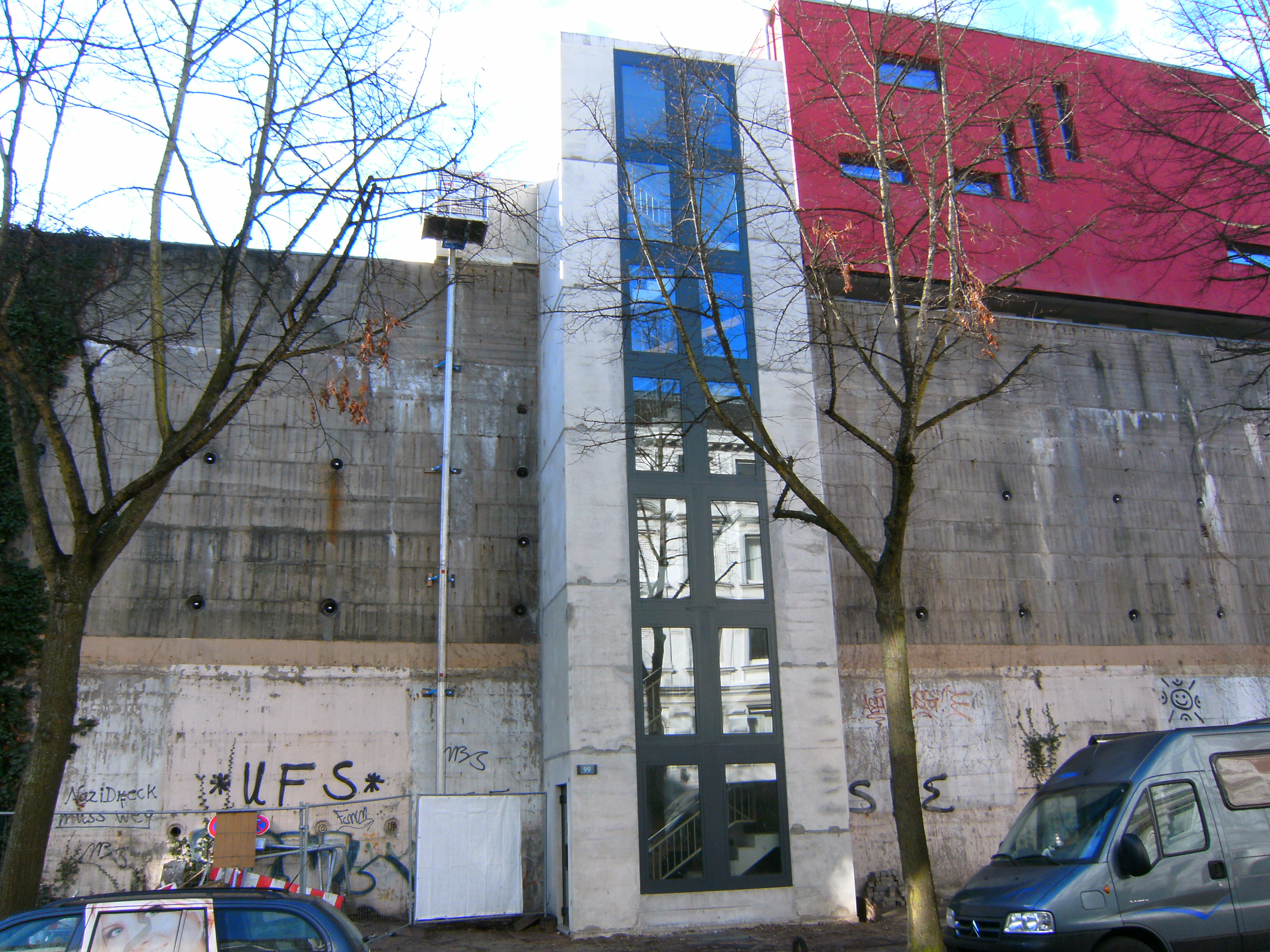 Bunker in Hamburg, Humboldtstraße 99. Reconstruction with external staircase and penthouse.